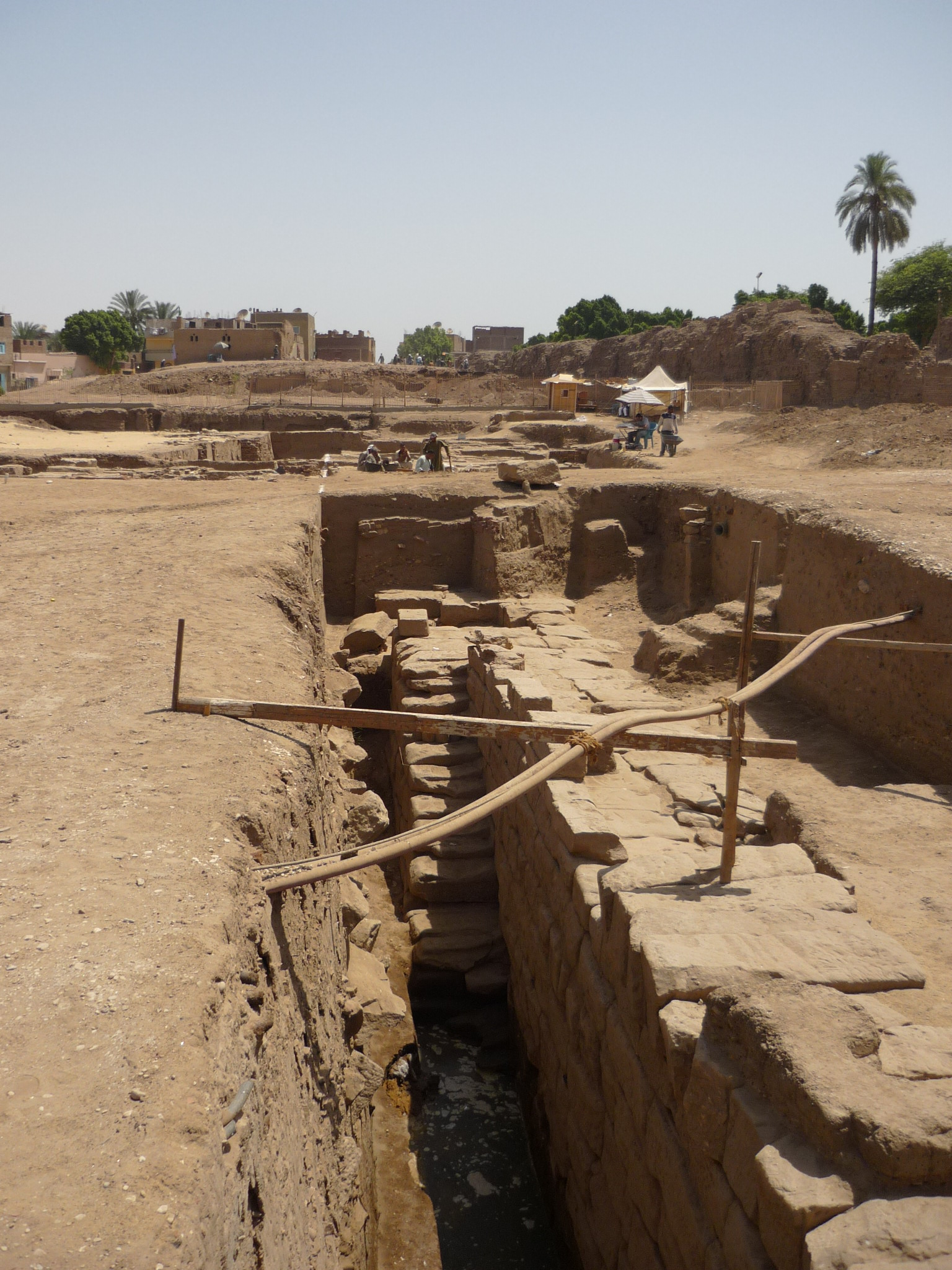 Excavation in front of the first pylon, Karnak temple of Amun-Ra, Egypt